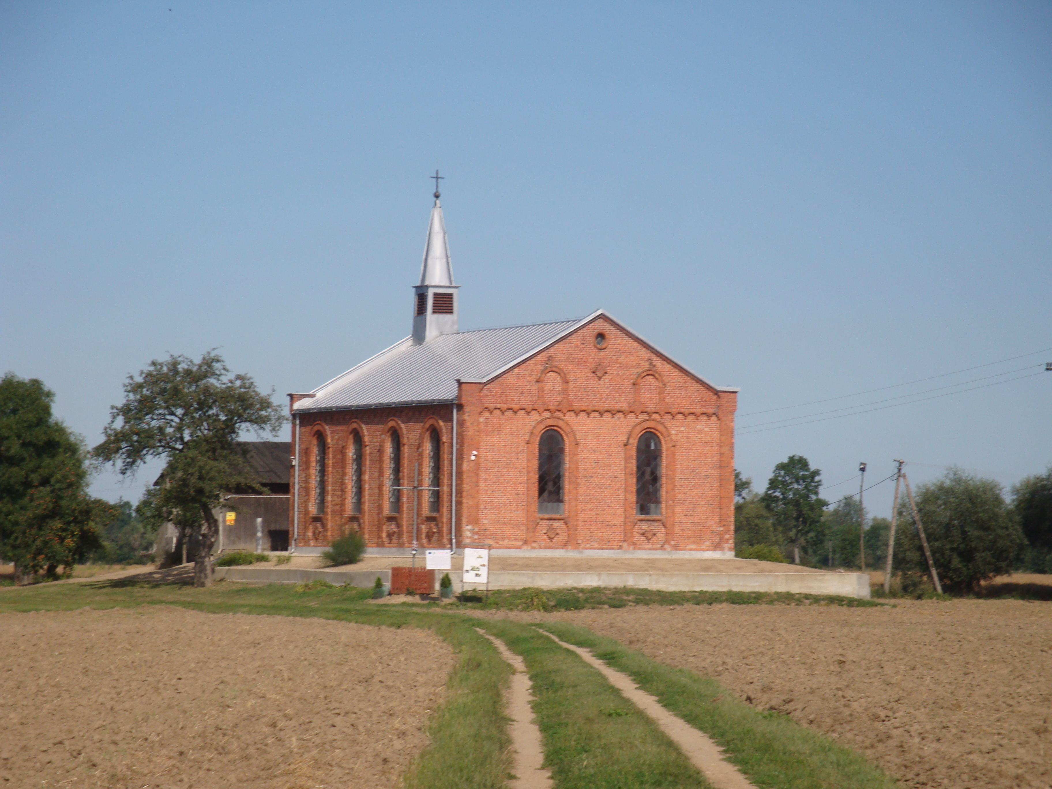 Church in Wiączemin Polski (Masovian Voivodeship, Poland. Since 2013 part of open-air museum.